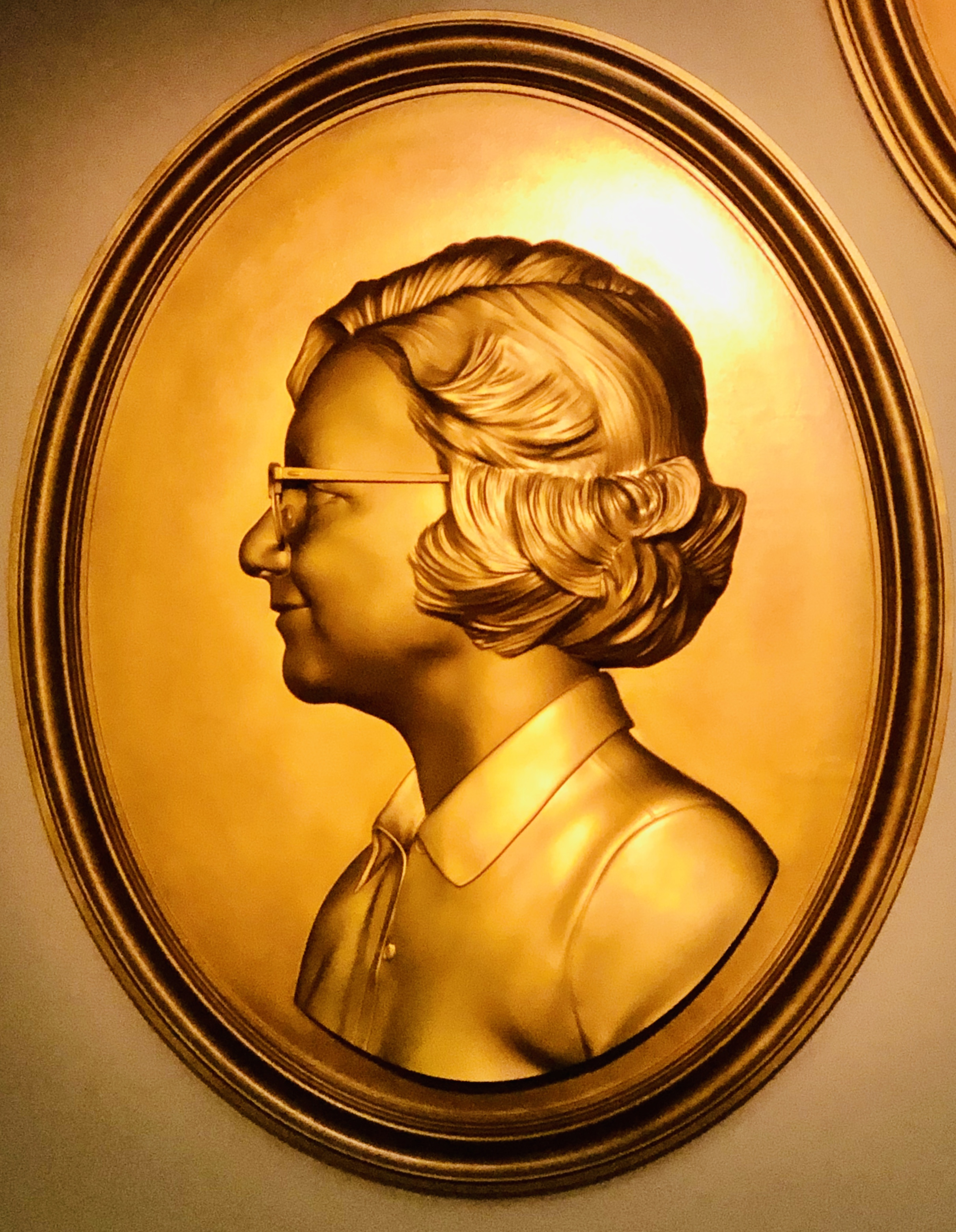 Relief of Clermont Huger Lee unveiled at SCAD Arnold Hall 2/14/2020